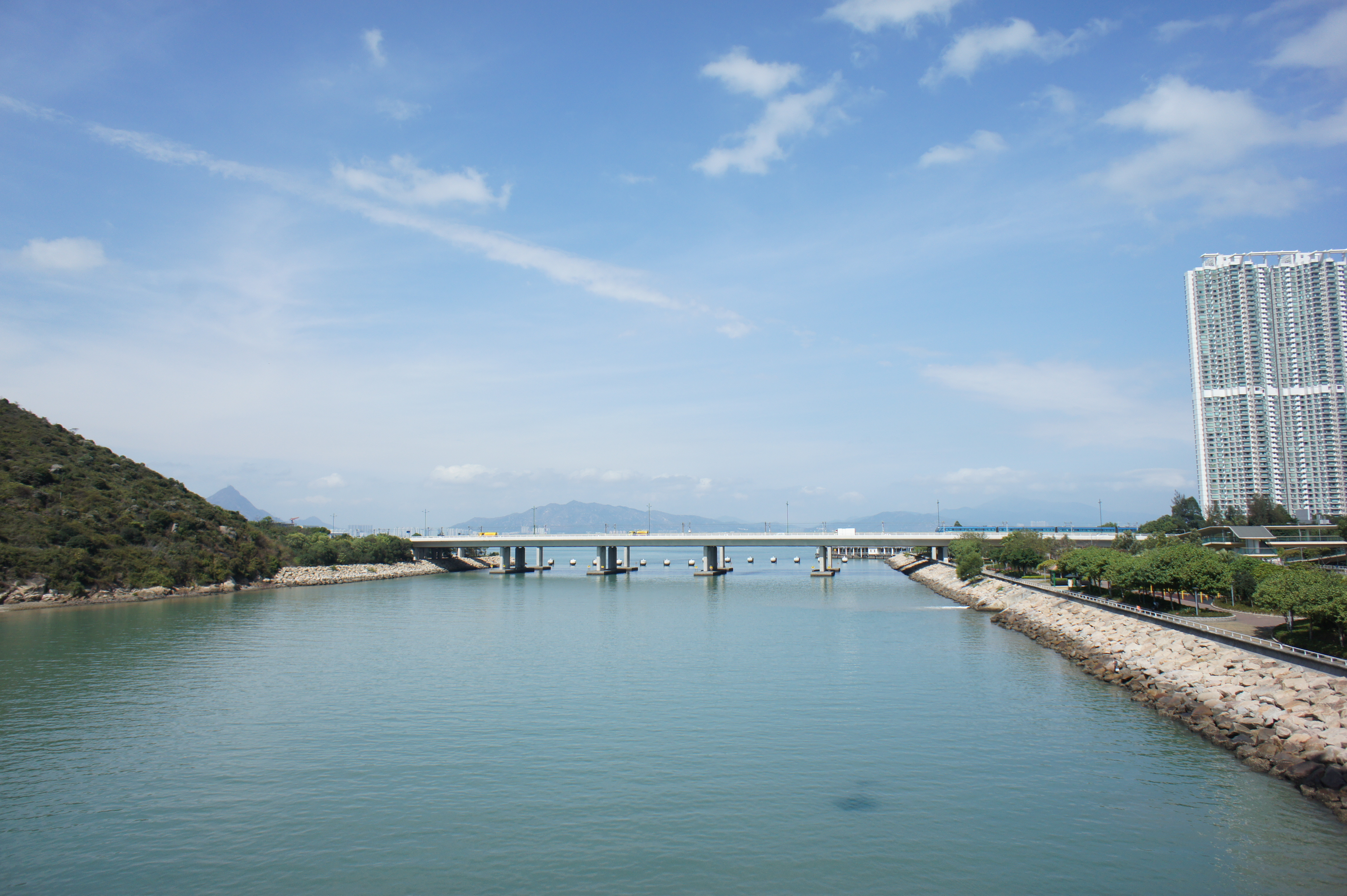 North Lantau Expressway Sea Channel Bridge connecting the Tung Chung on the right to the Airport Road on the left.